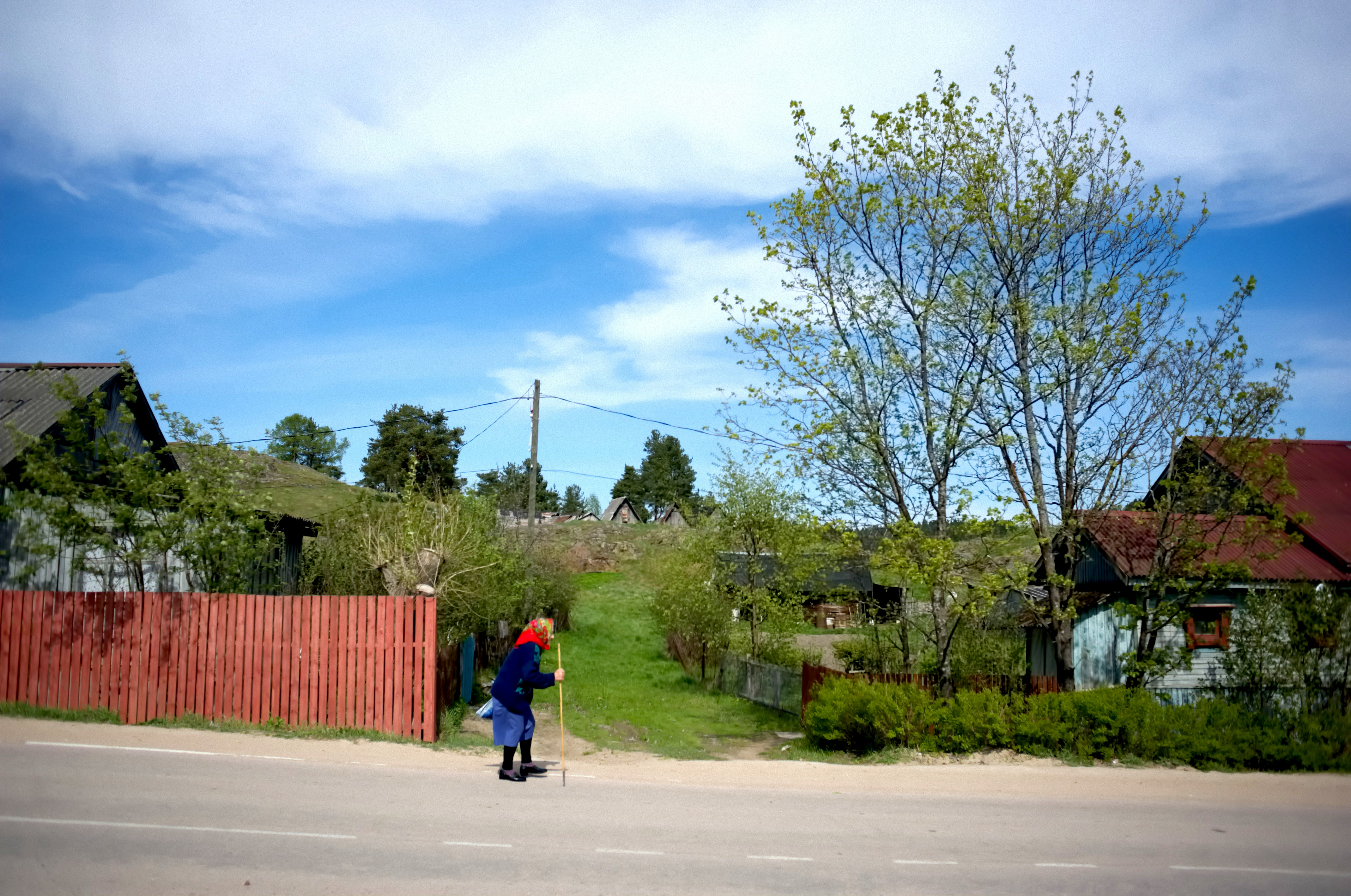 Kurkijoki May 14th 2016